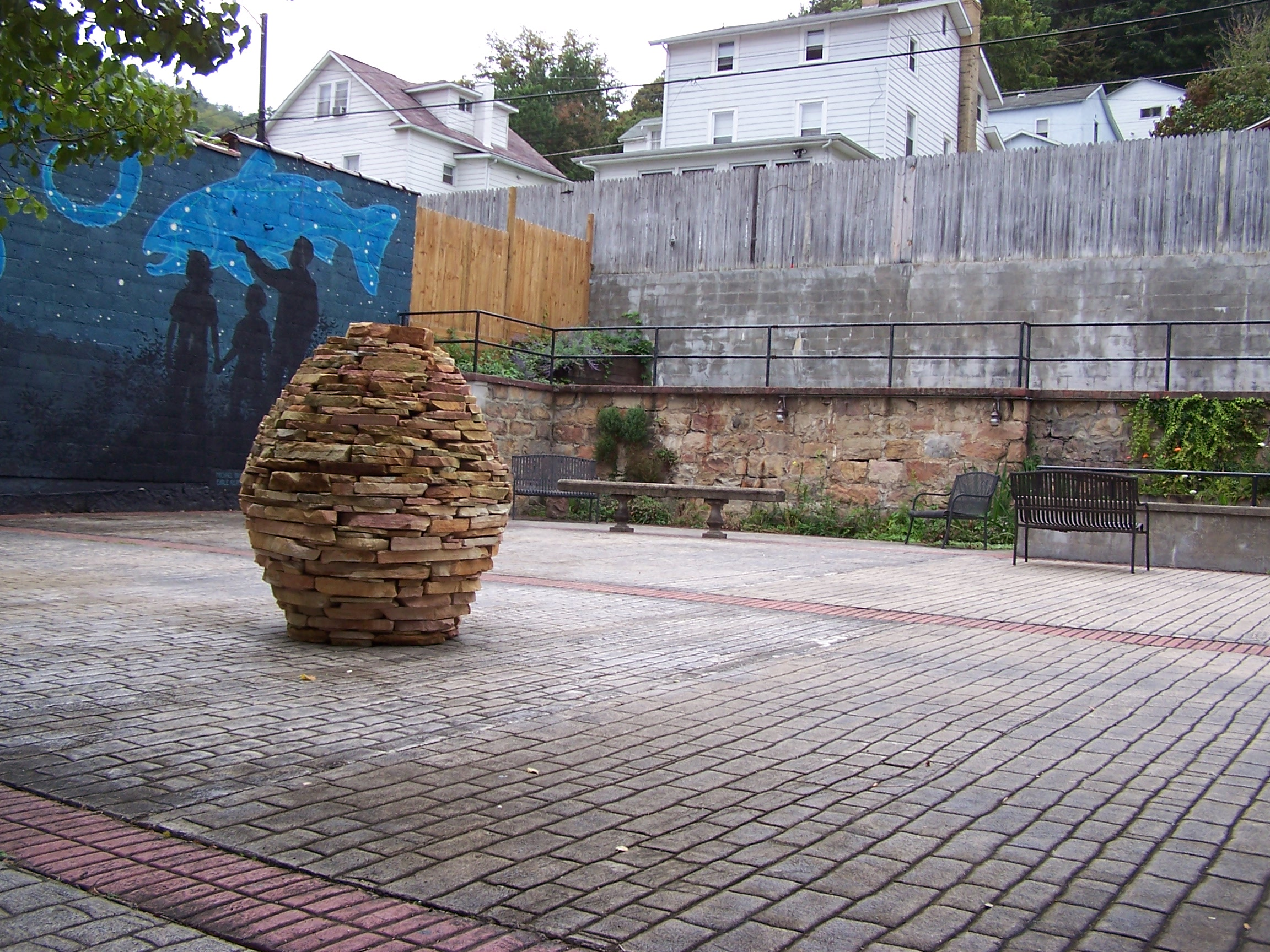 Self-made photo of the Sterling Spencer Memorial Sculpture Garden located on Main Street in Richwood, West Virginia taken on September 24, 2006.